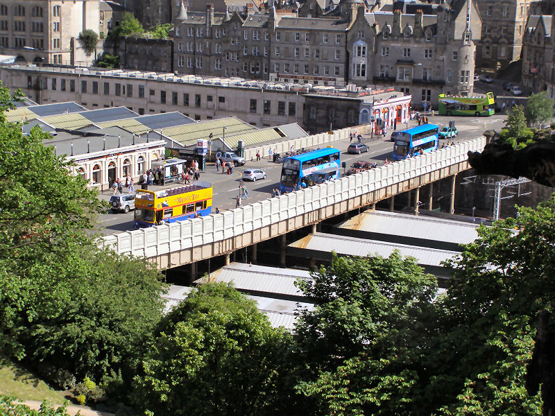 Waverley Bridge from the Scott Monument, near to Edinburgh, Great Britain.